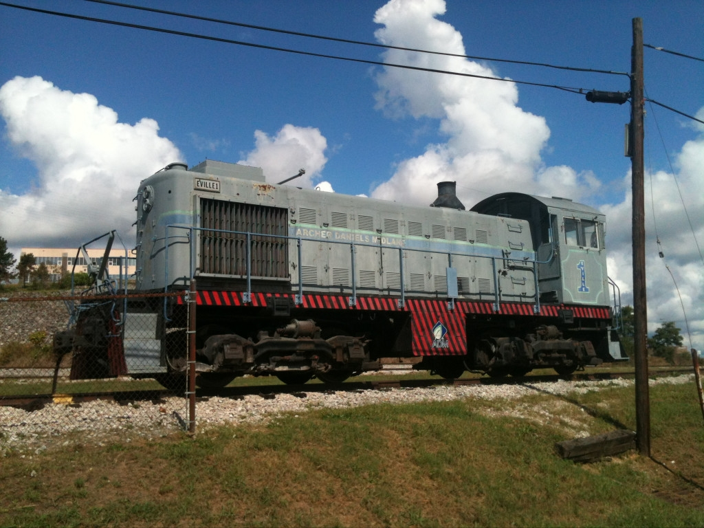 Archer Daniels Midland ALCO S2 Railroad Switching Locomotive at CSX Transportation's Howell Yard in Evanville, Indiana, USA. The locomotive featured in this photograph was built in August of 1948, and is now scrapped.